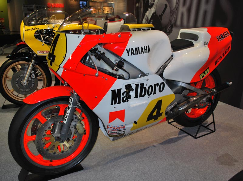 Yamaha YZR500 (OW70), 1983 Kenny Roberts